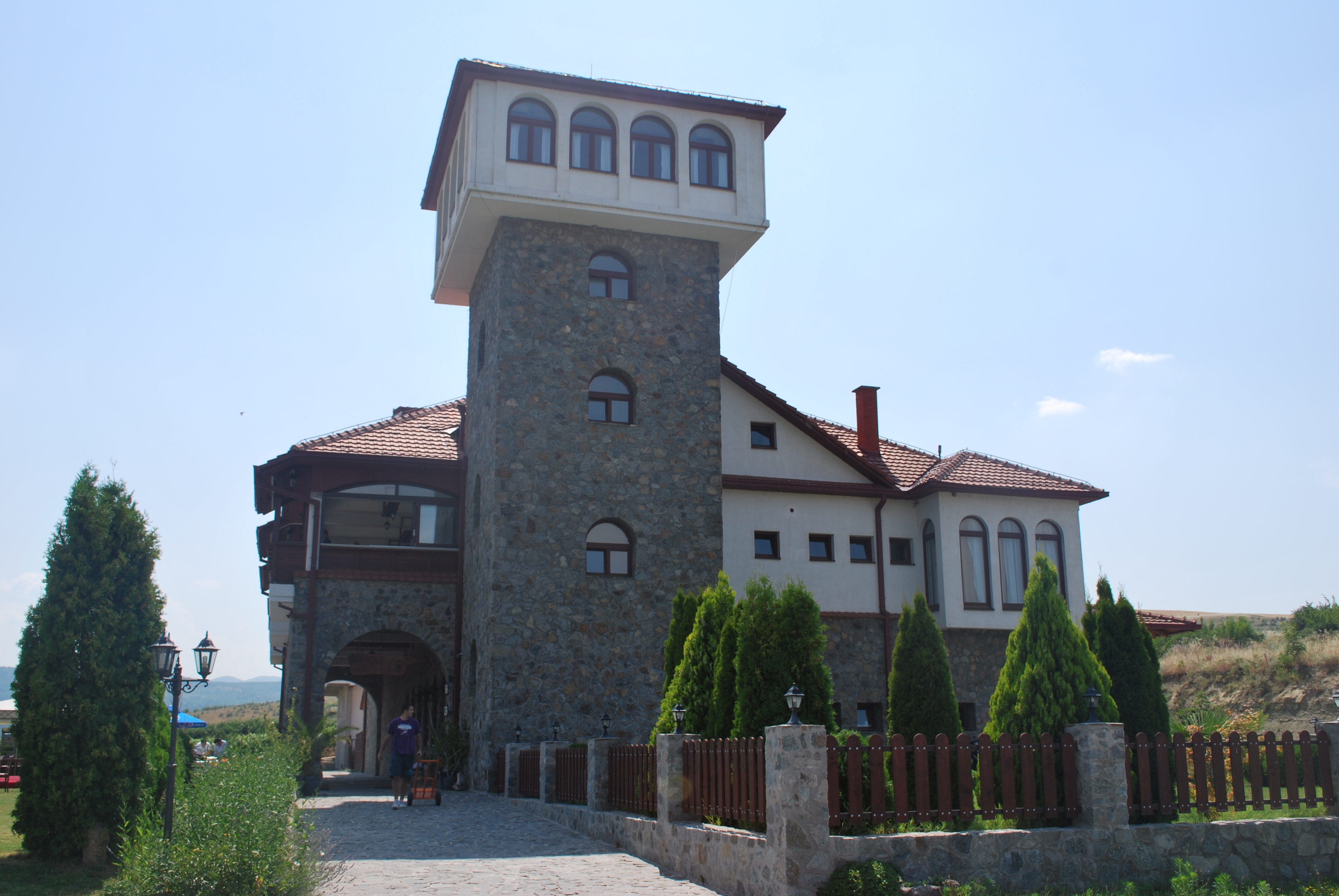 Popova Kula - Winery, Restaurant and Hotel in Demir Kapija, Macedonia